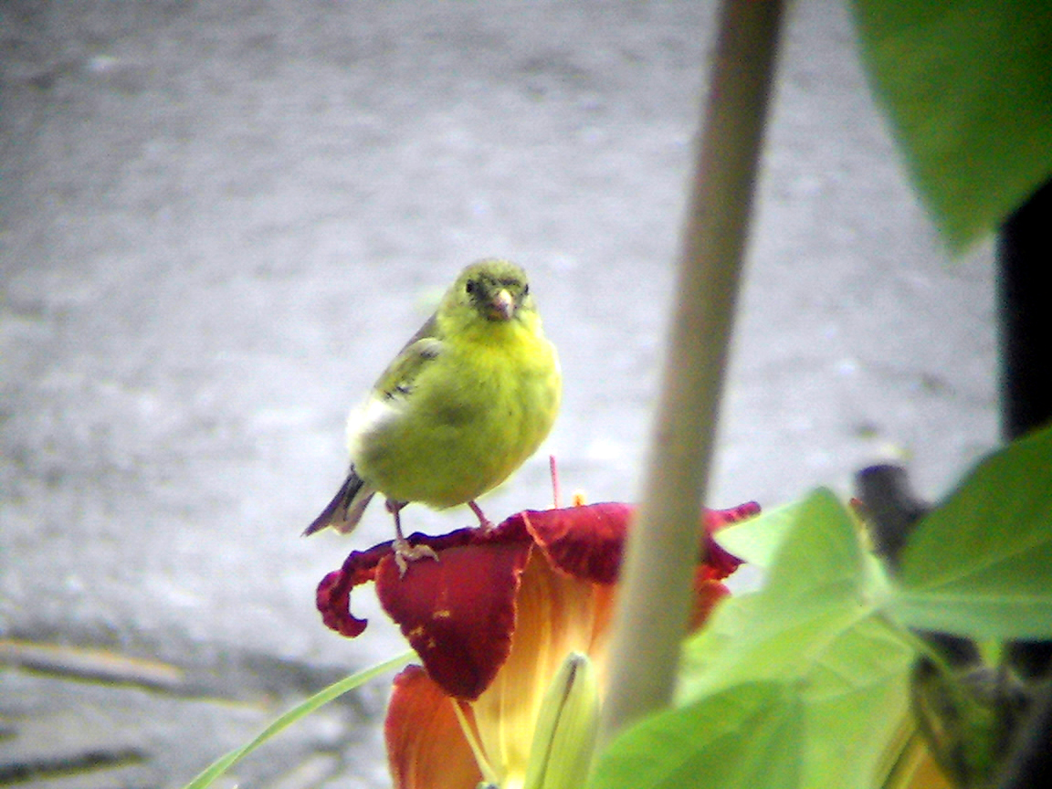 This is an image of a female American Goldfinch (Carduelis tristis) sitting on top of a red lily.